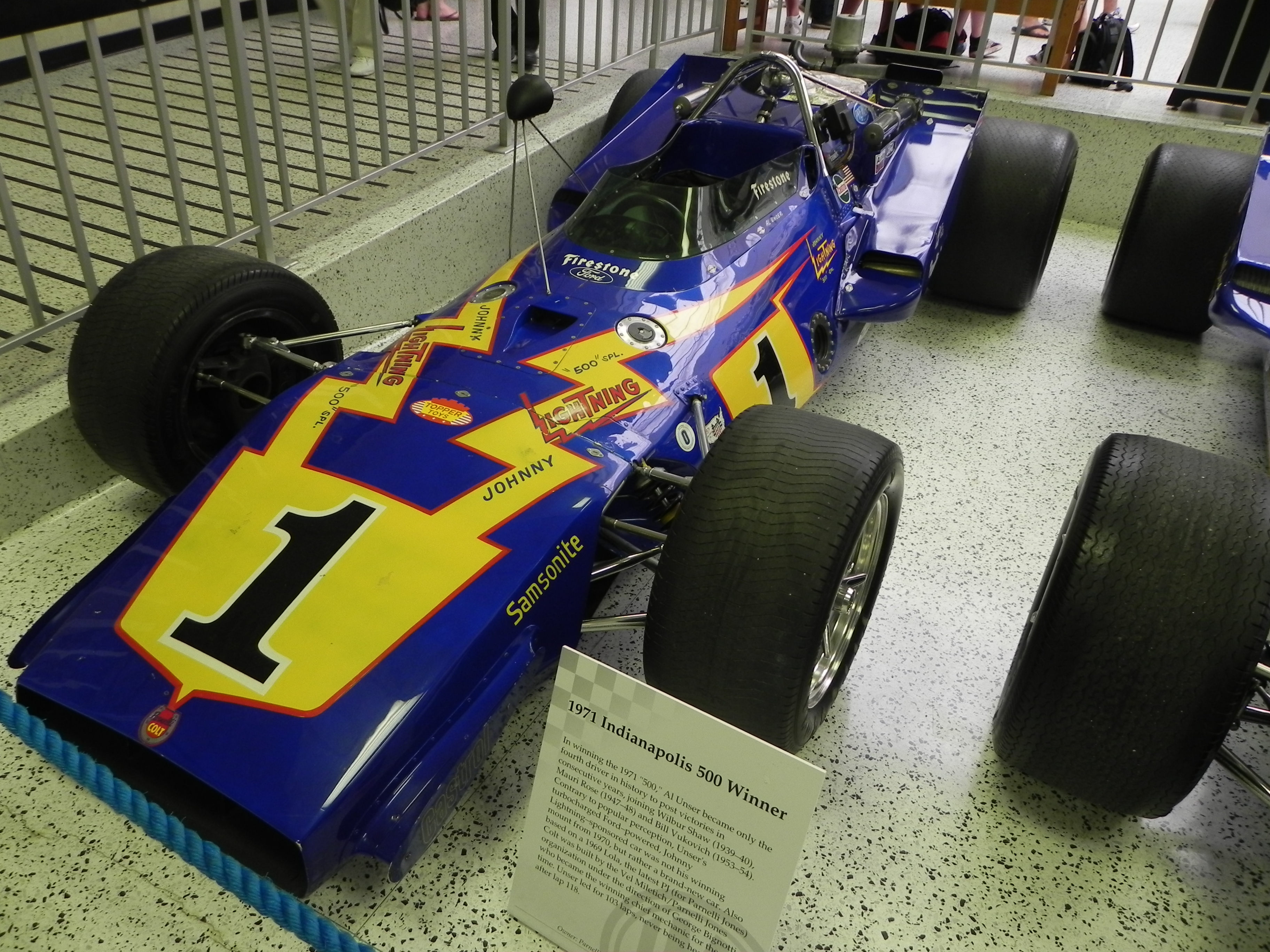 Image of the winning car of the 1971 Indianapolis 500 (Al Unser, Sr.). Photo was taken at the Indianapolis Motor Speedway Hall of Fame Museum, during the month of May 2011, at the 100th Anniversary "Ultimate Indianapolis 500 Winning Car Collection."